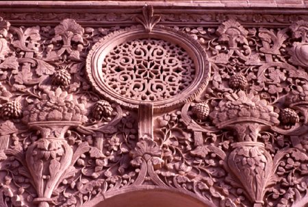 Example of Persian craftsmen artwork from local humble earth. Photo by user Zereshk.